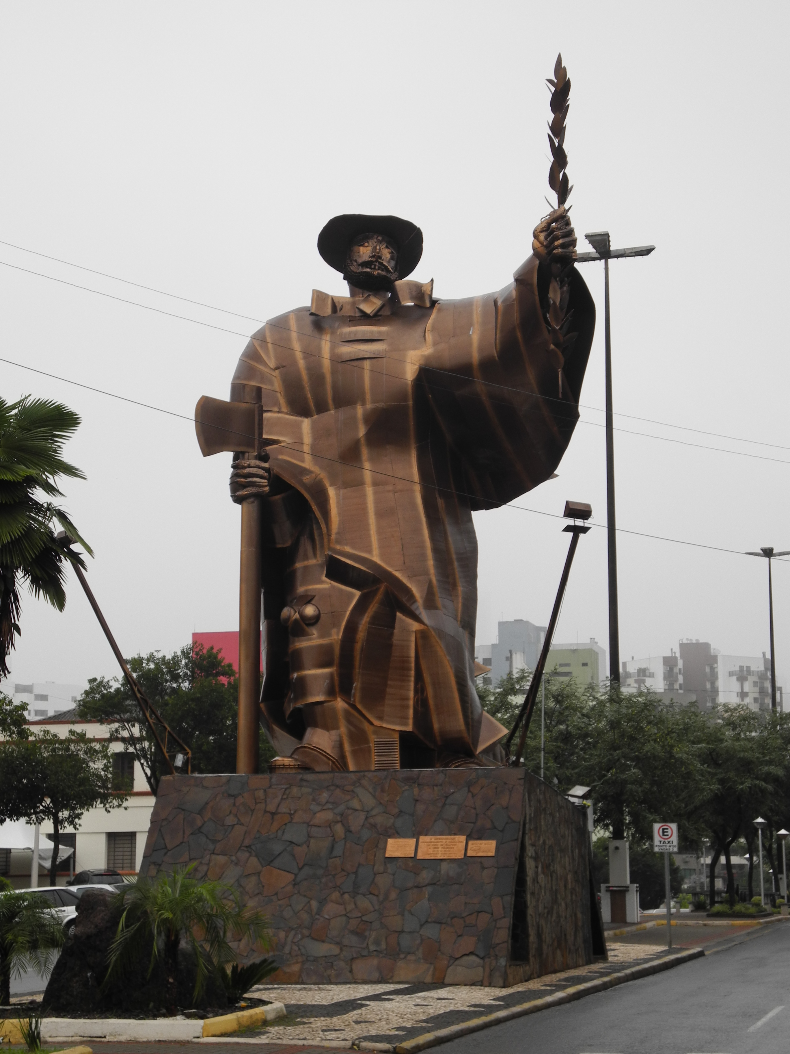 Chapecó, Santa Catarina, Brazil Statue "Desbravador"